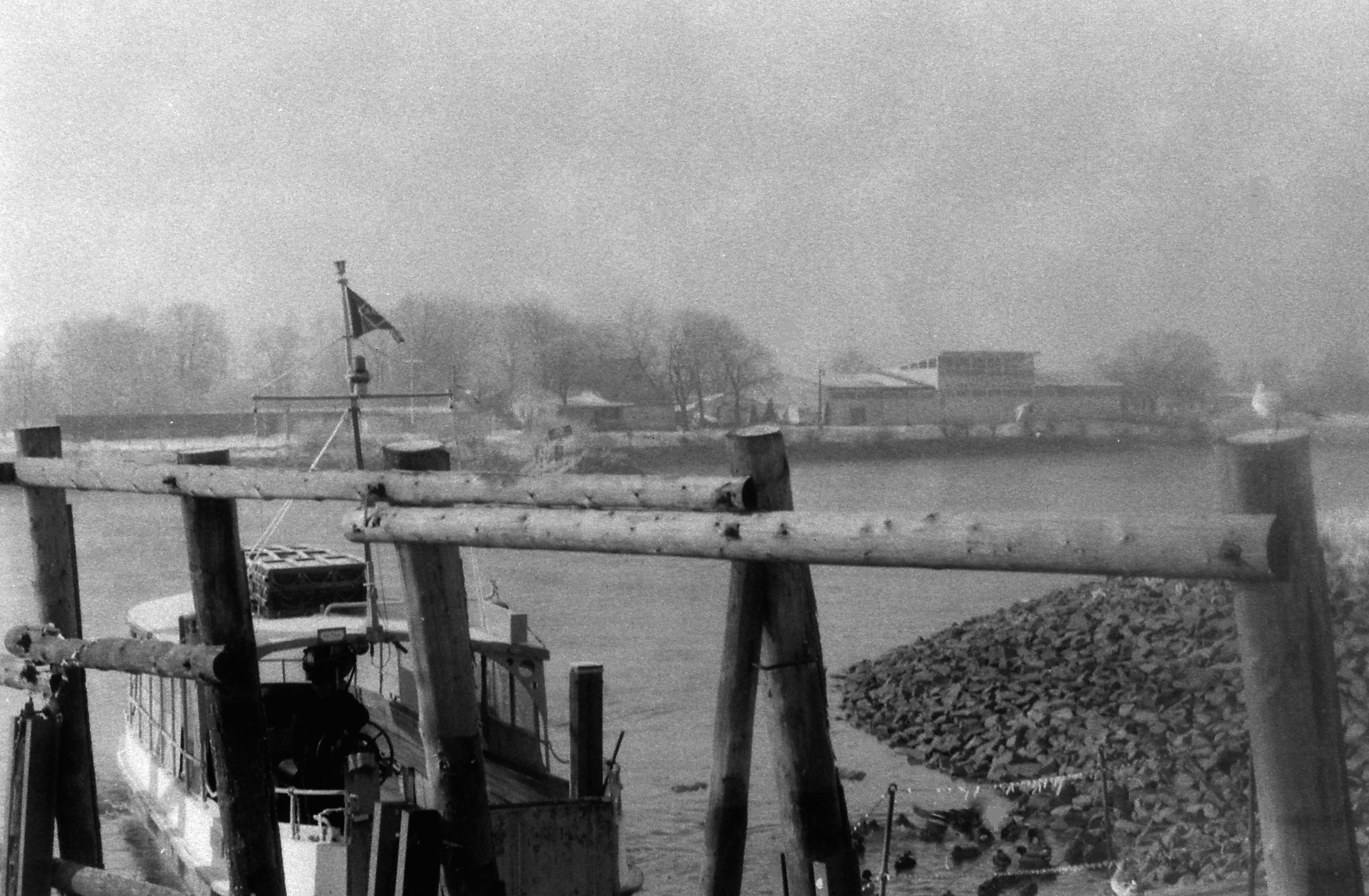 The Sielwallferry "Hal över" on Osterdeich dockside in winter 1964-65